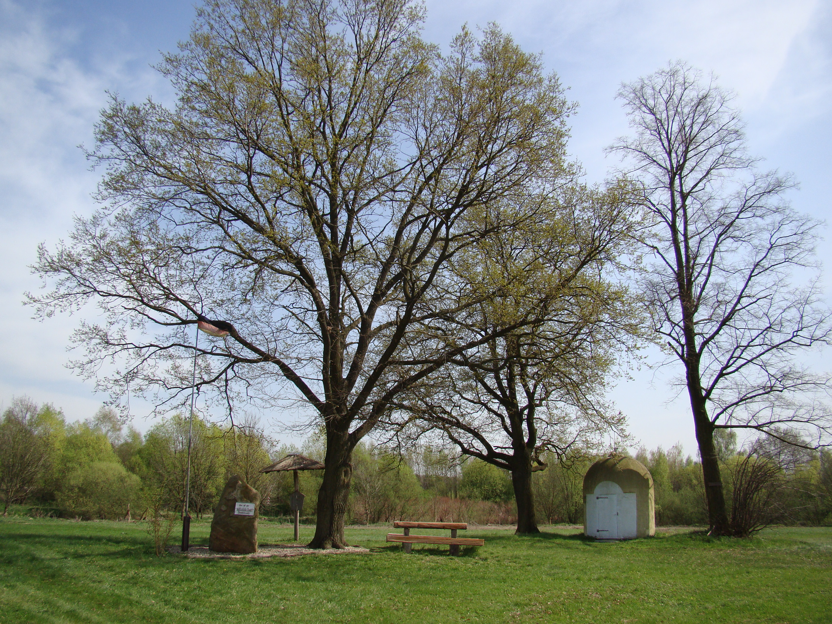 Germany's most eastern landmark (51°16´22´´N, 15°02´37´´E), situated in the municipality of Neißeaue, located near Zentendorf (District of Görlitz)